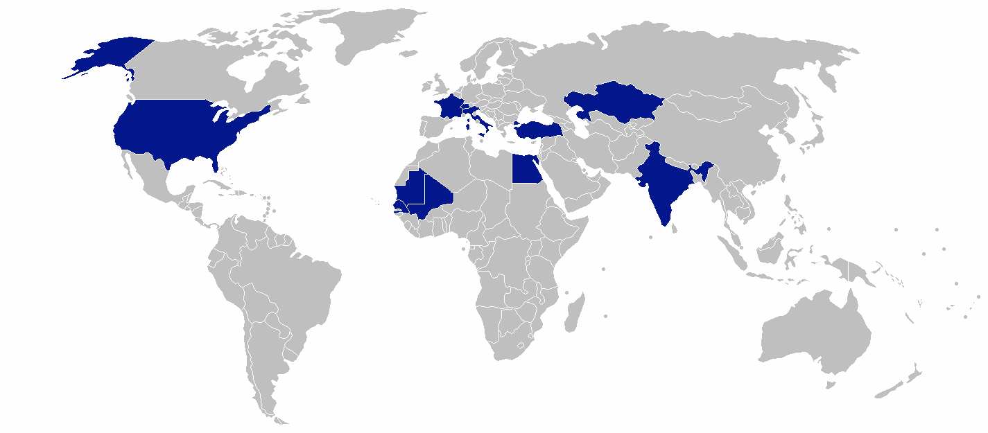 World locations of Vicat Group